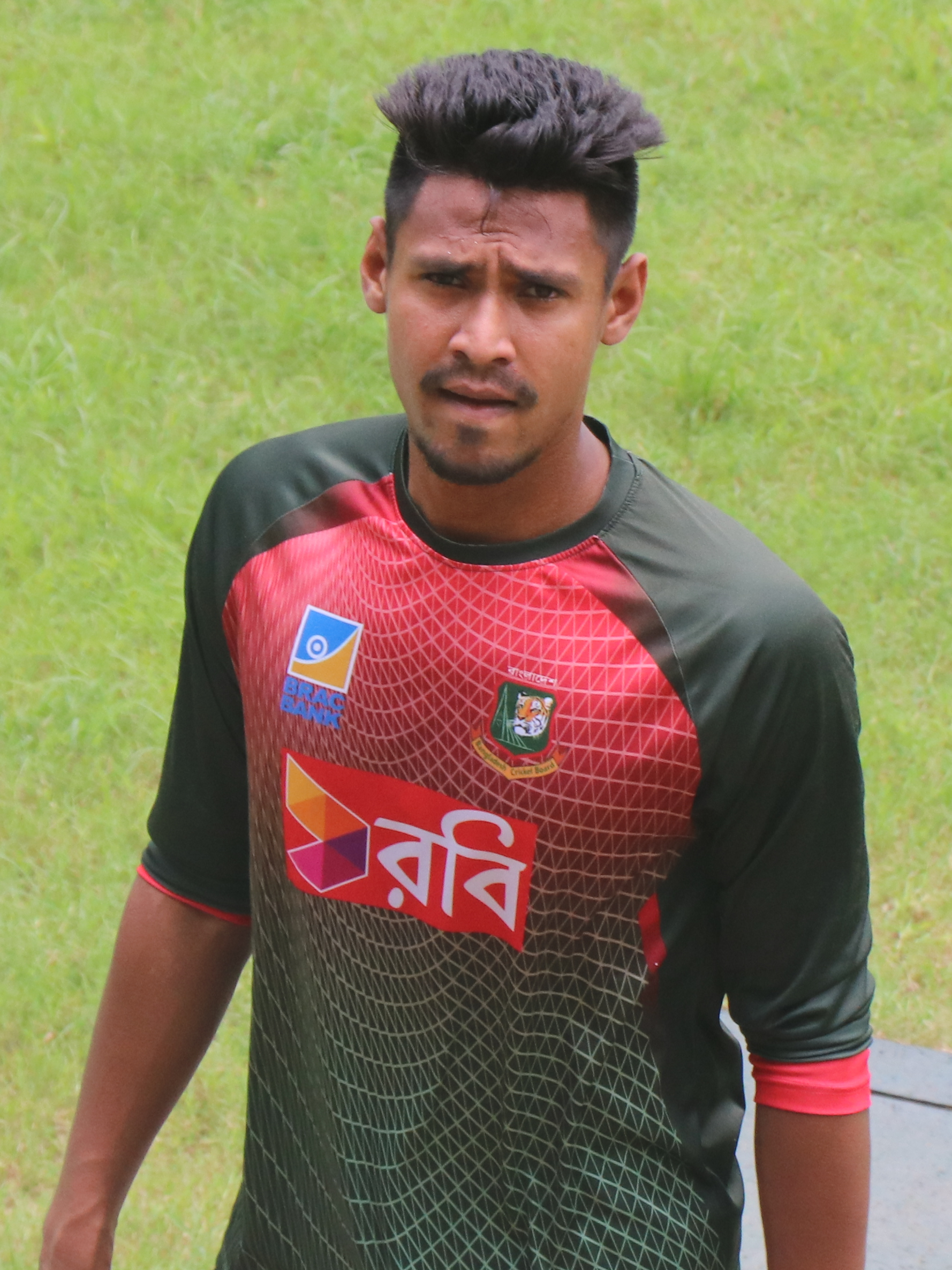 Mustafizur Rahman on the practice field in Dhaka on 2018